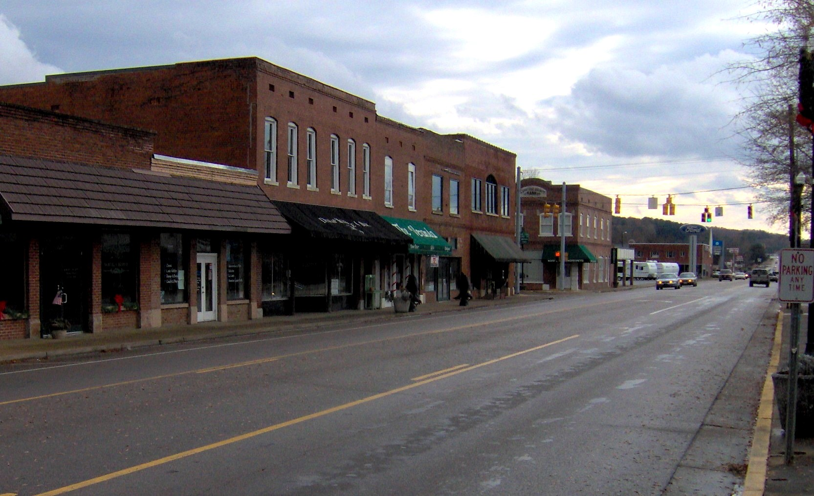 Rankin Avenue (US-127) in Dunlap, Tennessee, in the southeastern United States.